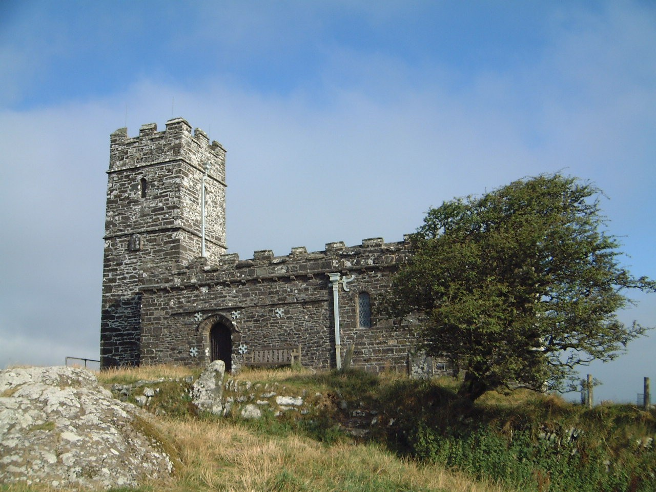 Church of St Michael, on top of Brent Tor in Devon, circa 2000.